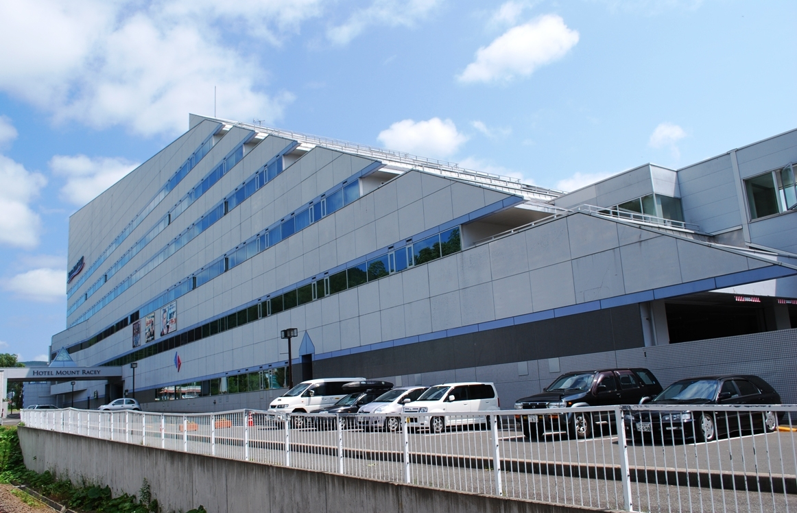 Hotel Mount Racey on the outside